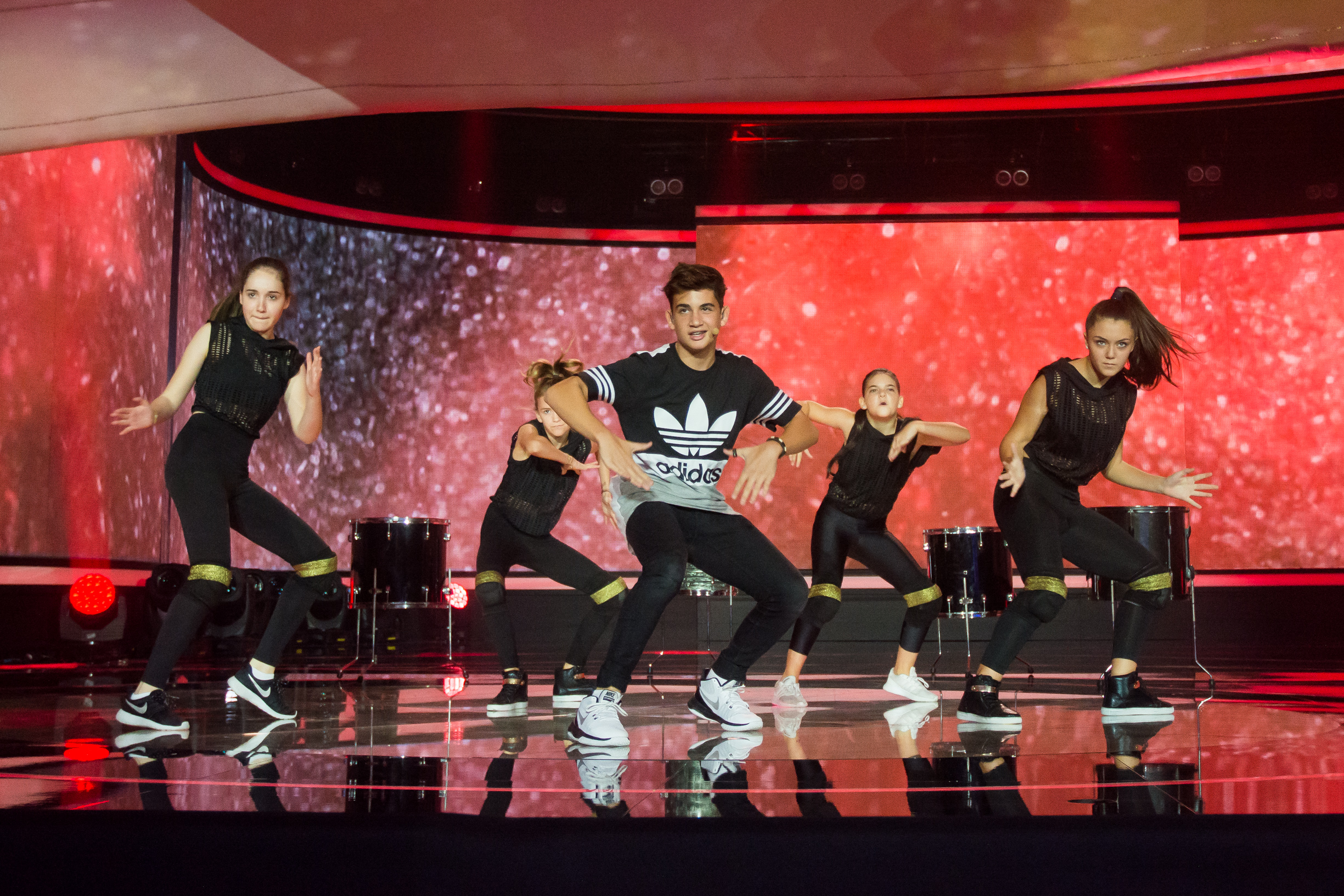 JESC 2016 participant: George Michaelides (Cyprus)